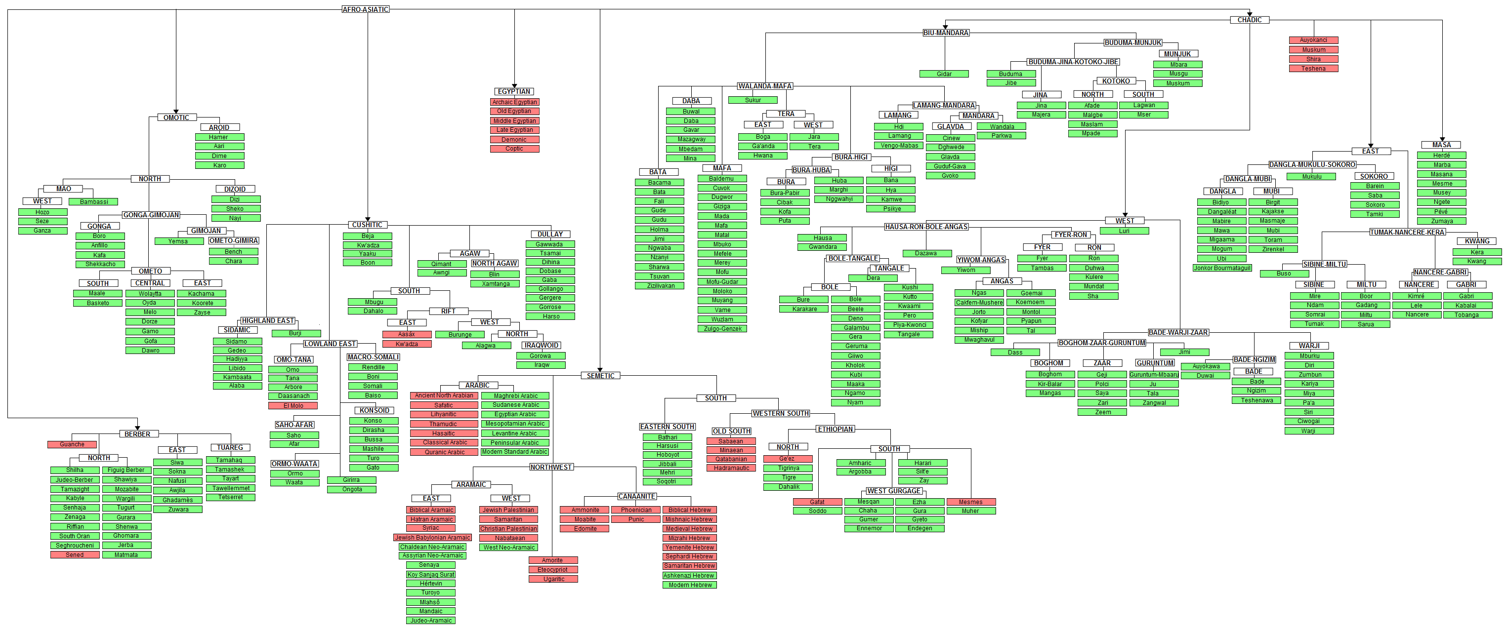 Phylogenic Tree of Afro-Asiatic Languages both living and extinct, based on data from ethnologue.